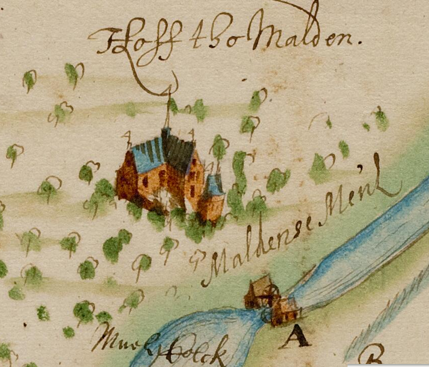 Part of bigger map: River Berkel between the Court of Malden and Melckvondert at Eibergen, 3 augustus 1642 Netherlands